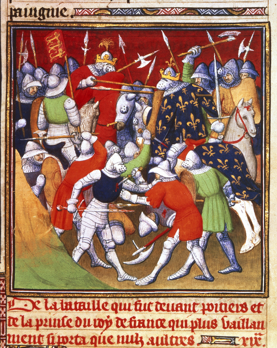 Battle of Poitiers. (Miniature) The Battle of Poitiers between the English and French in 1356.